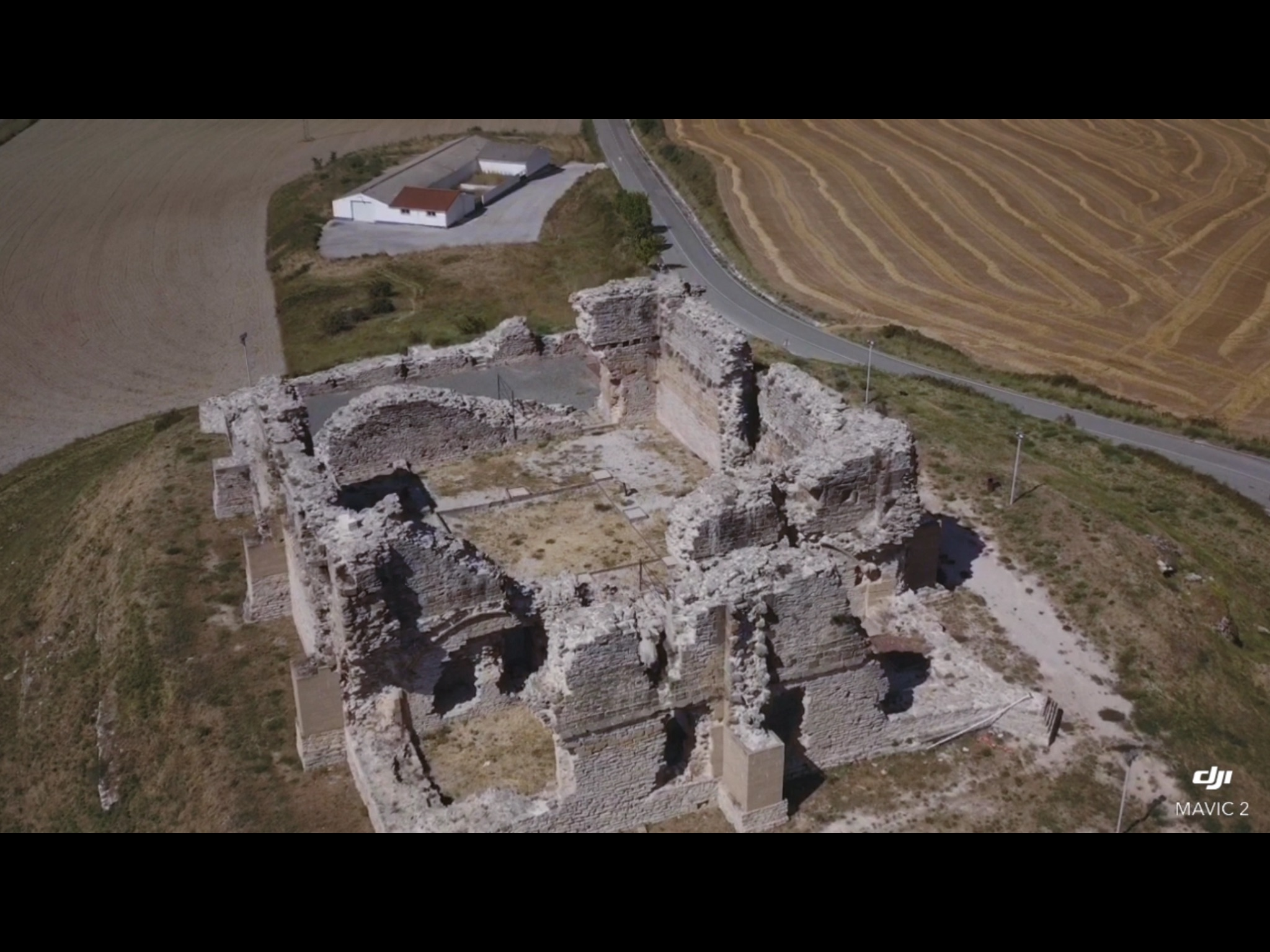 Tiebas castle